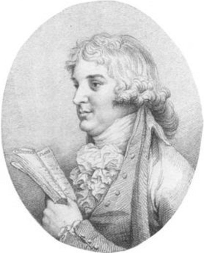 Engraving of the actor George Wathen by John Condé